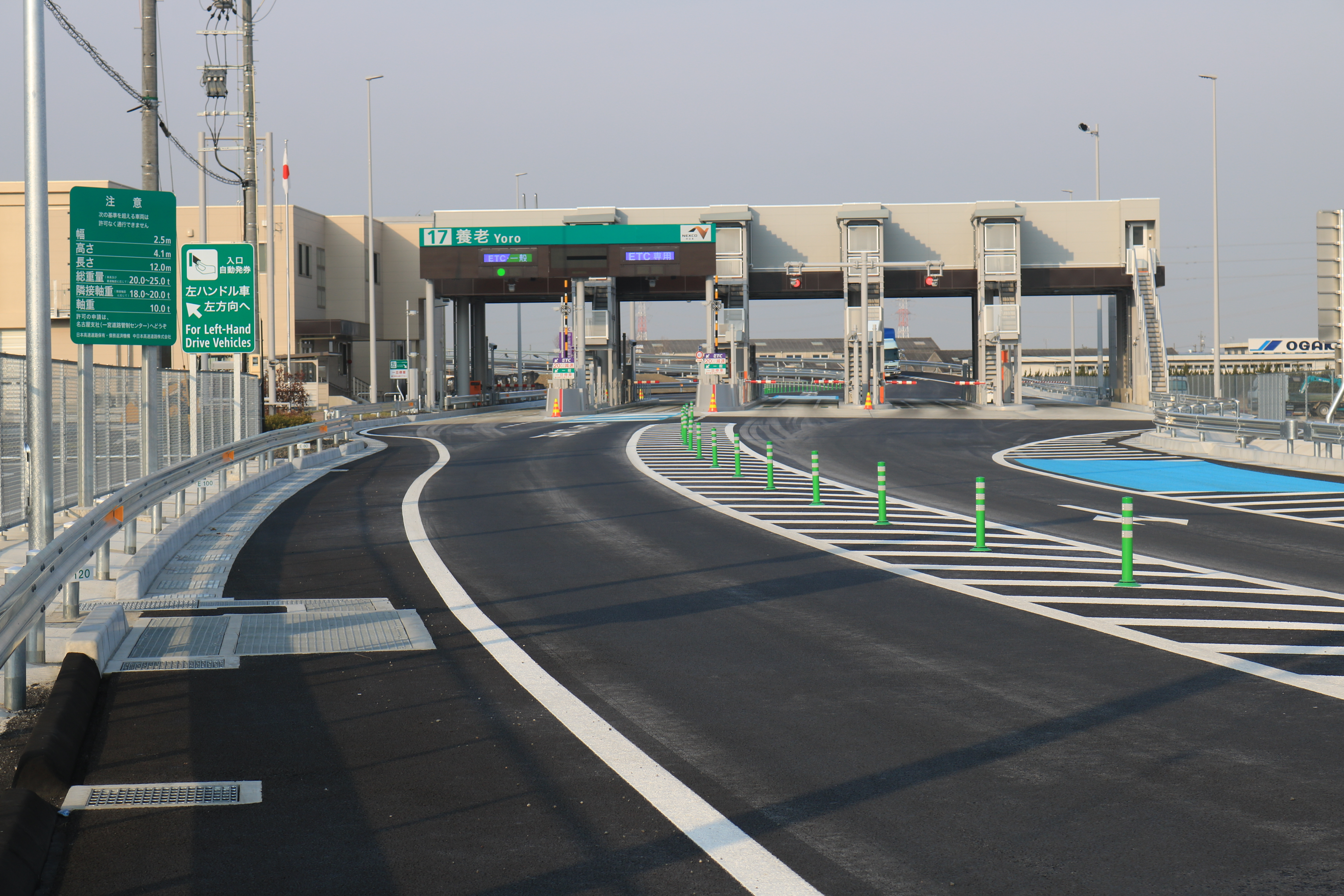 Toll Gate of Yoro Interchange in Yoro, Gifu Prefecture, Japan.